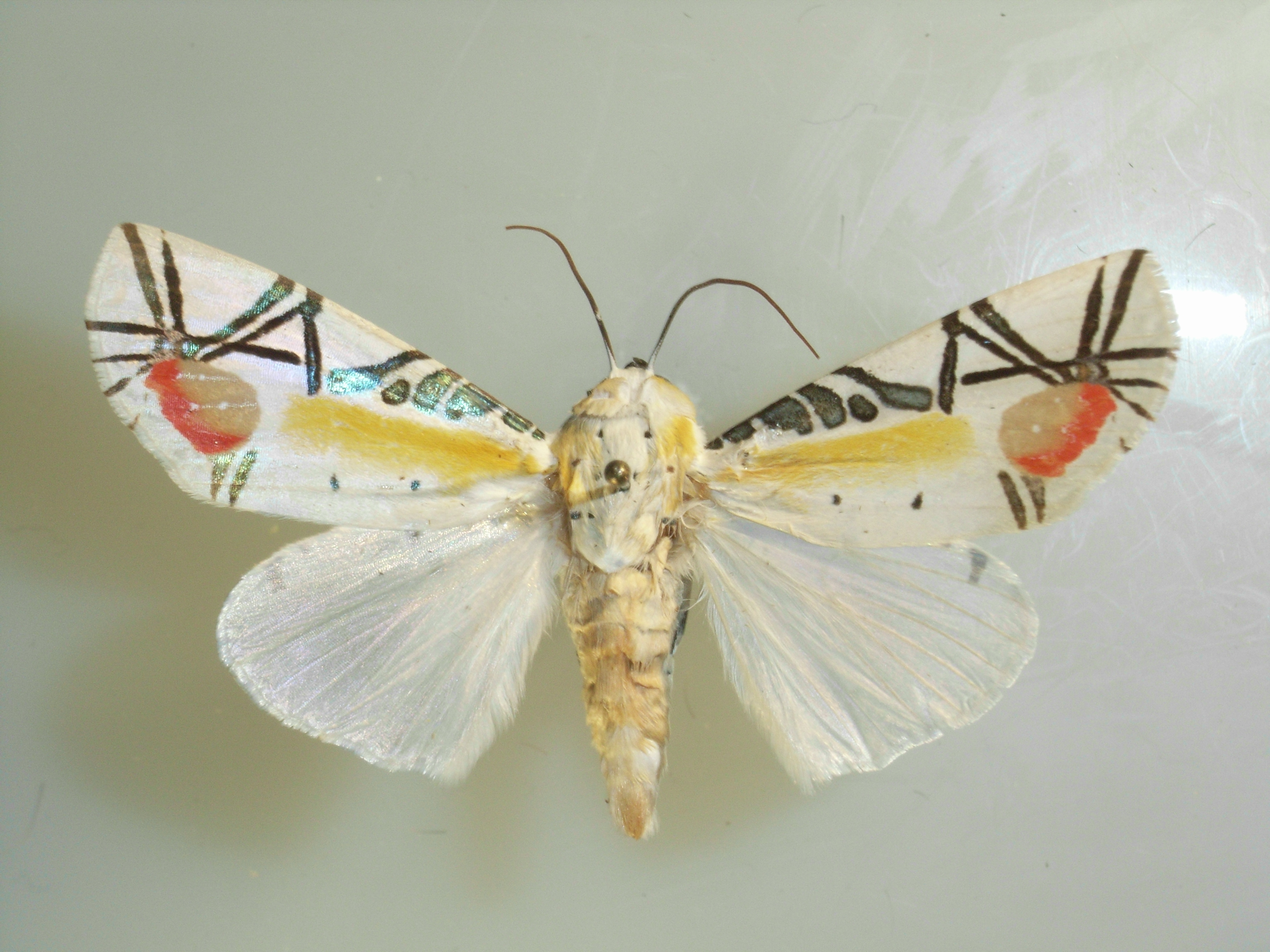 V & A moth (from the markings on the forewing costa), a species of the genus Baorisa, probably Baorisa hieroglyphica Moore, 1882 (Noctuidae). Paper describing several new species is Behounek, G, Speidel, W. & Thöny, H. 1996. Revision der Gattung Baorisa Moore, 1882 (Lepidoptera: Noctuidae) (G. Behounek, W. Speidel & H. Thöny) Esperiana 3. Ex coll. Felix Stumpe